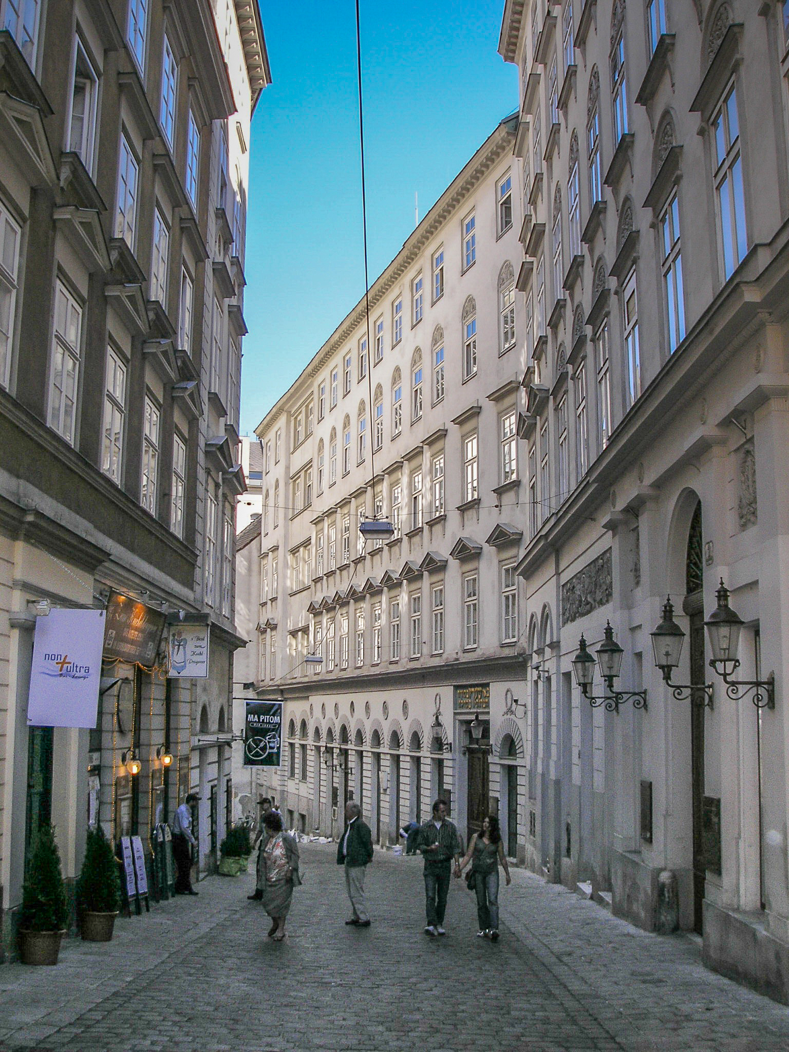 Image of the Stadttempel in Vienna.